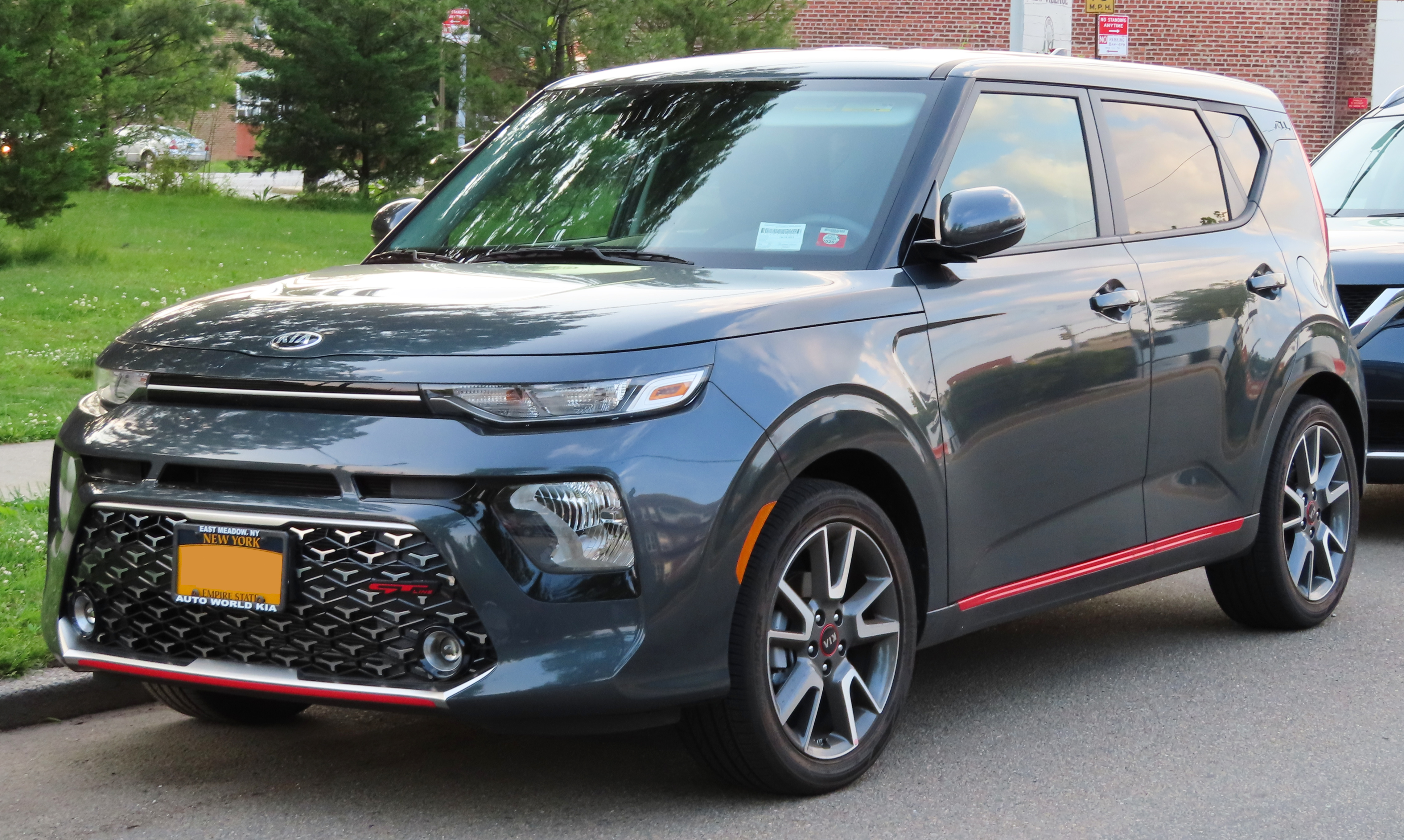 A 2020 Kia Soul GT-Line photographed in Kew Gardens Hills, Queens, New York, USA